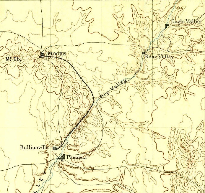 By the early 1870s, Pioche had grown larger, to become one of the most important silver-mining towns in Nevada. This map dates from 1885